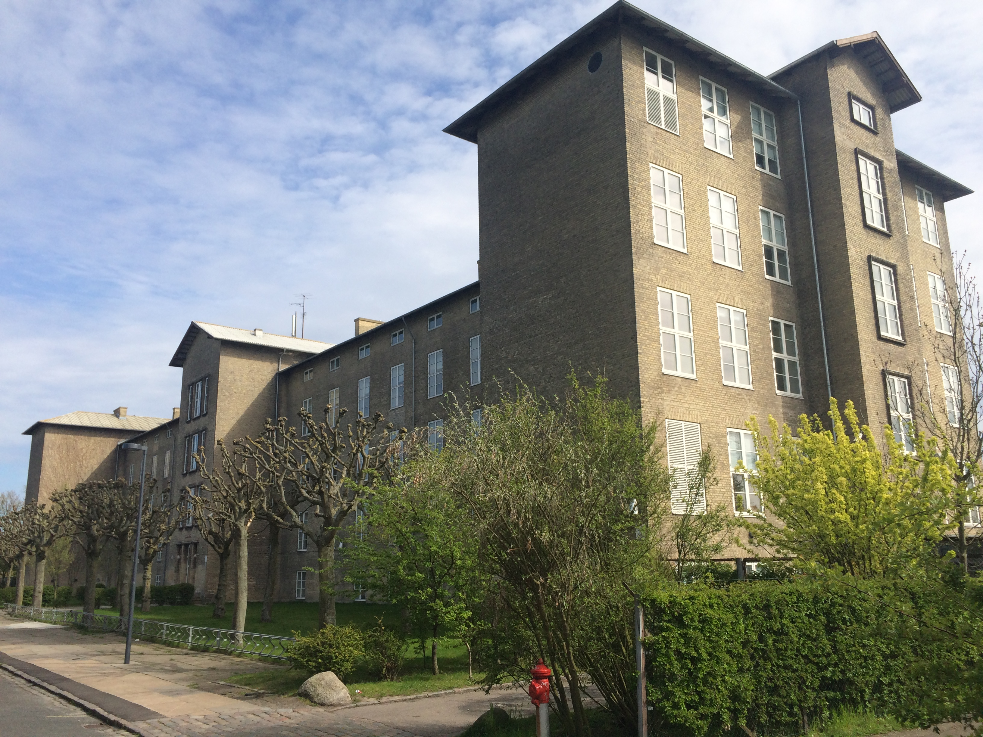 Højdevangens Skole in 2017